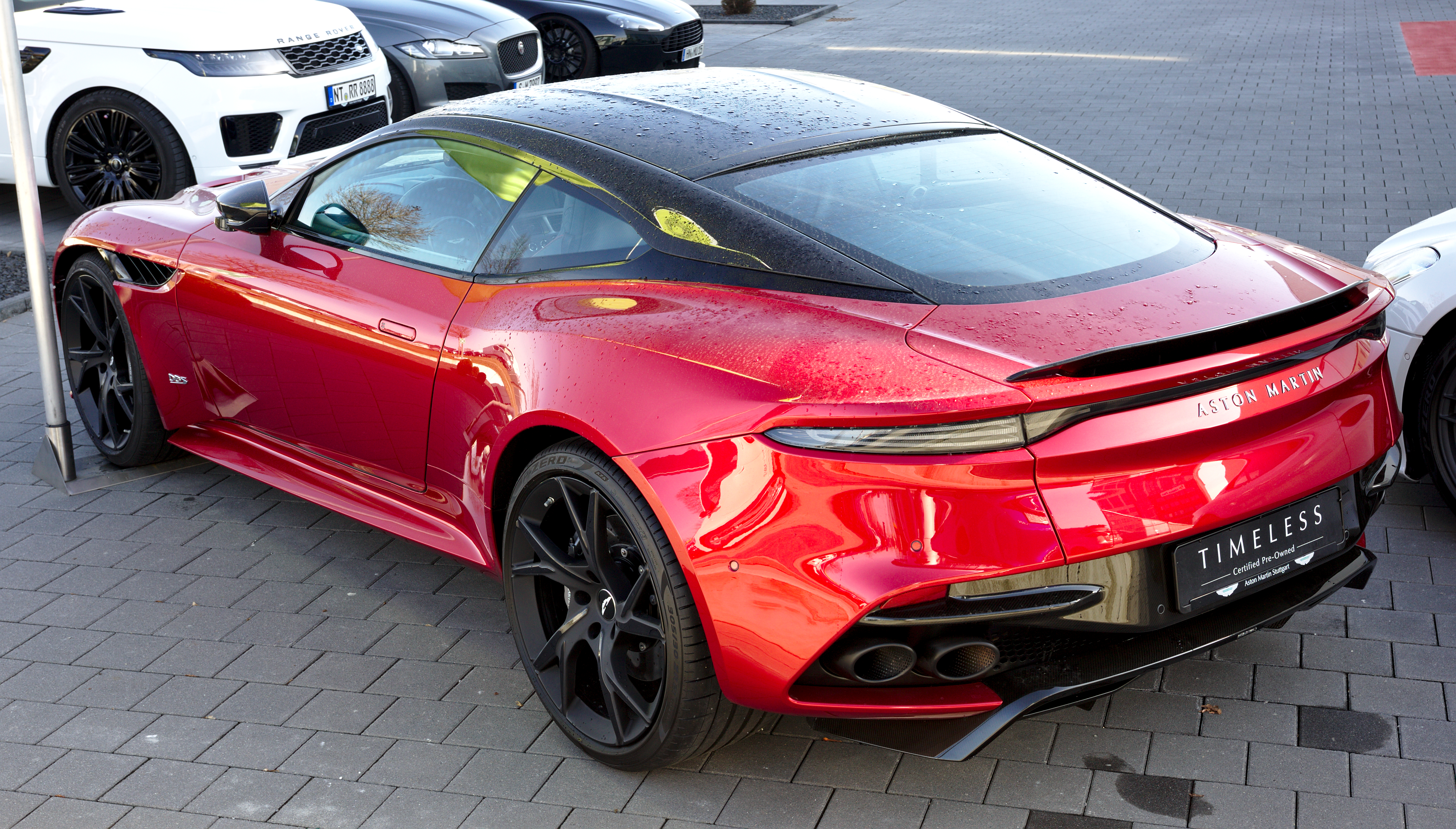 Aston Martin DBS Superleggera in Filderstadt